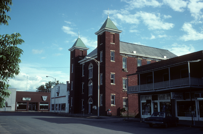 Front of the Carroll County Courthouse, Eastern District, located on Public Square in Berryville, Arkansas, United States. Built in 1880, it is listed on the National Register of Historic Places.